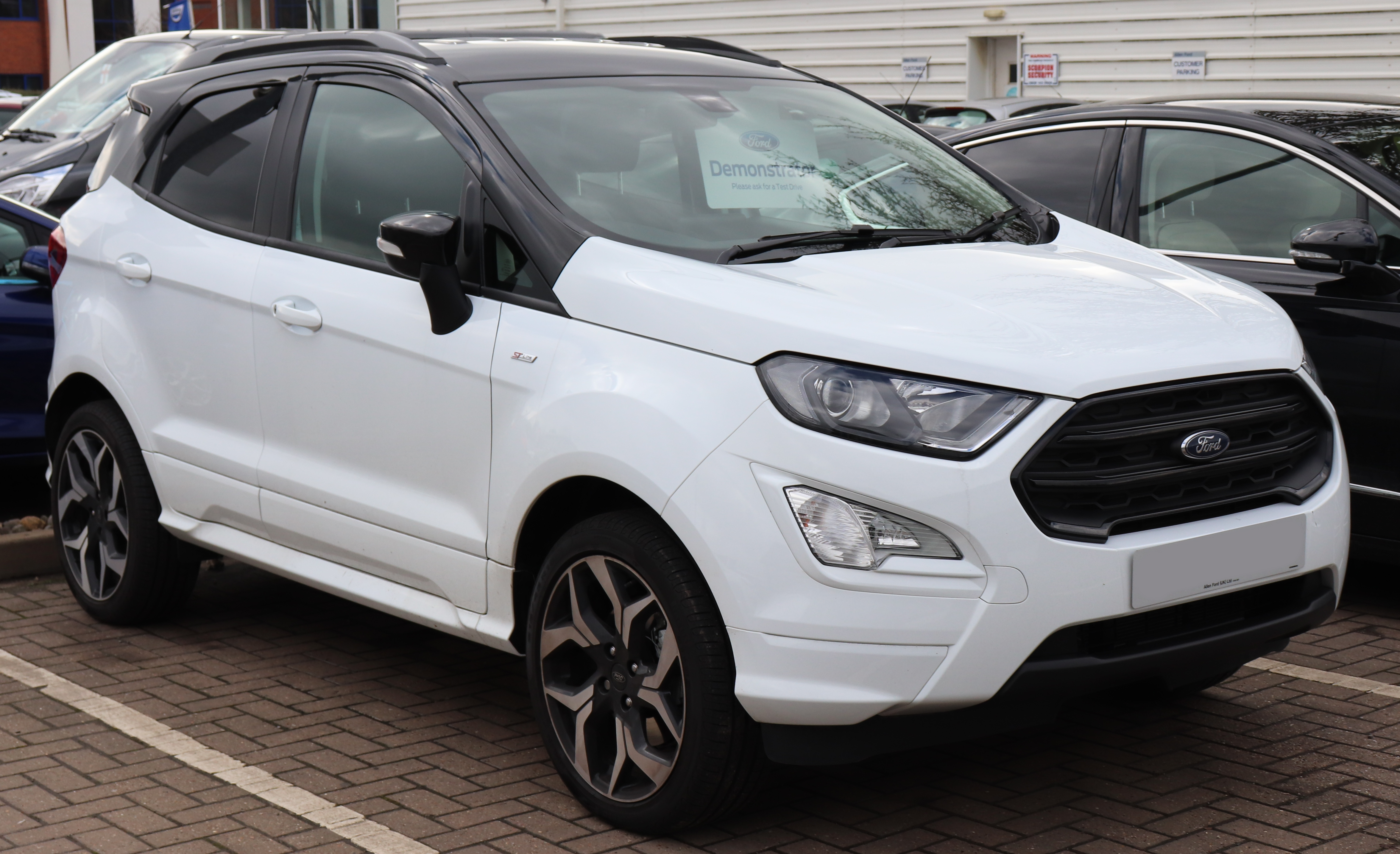 2018 Ford EcoSport ST-Line 1.0 Taken in Leamington Spa